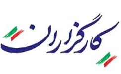 آرم حزب کارگزاران سازندگی